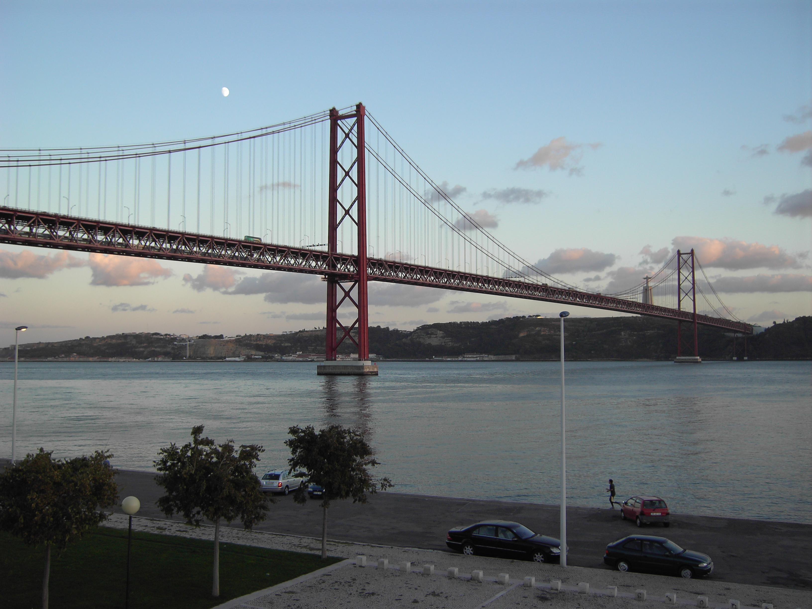 Original photograph taken by Nol Aders on 13th October 2005, 18:57